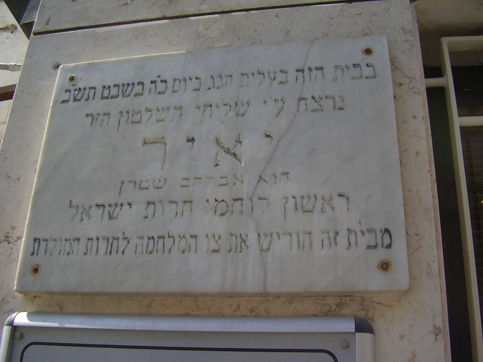 memorial plate on lehi museum in tel aviv